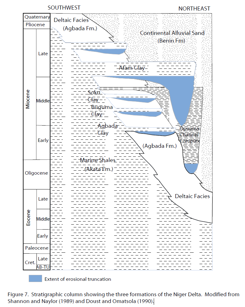 Stratigraphic column showing the main formations of the Niger Delta